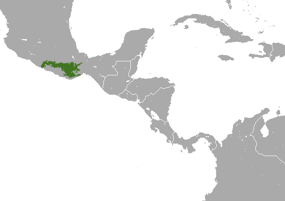 Goldman's Broad-clawed Shrew (Cryptotis goldmani) range